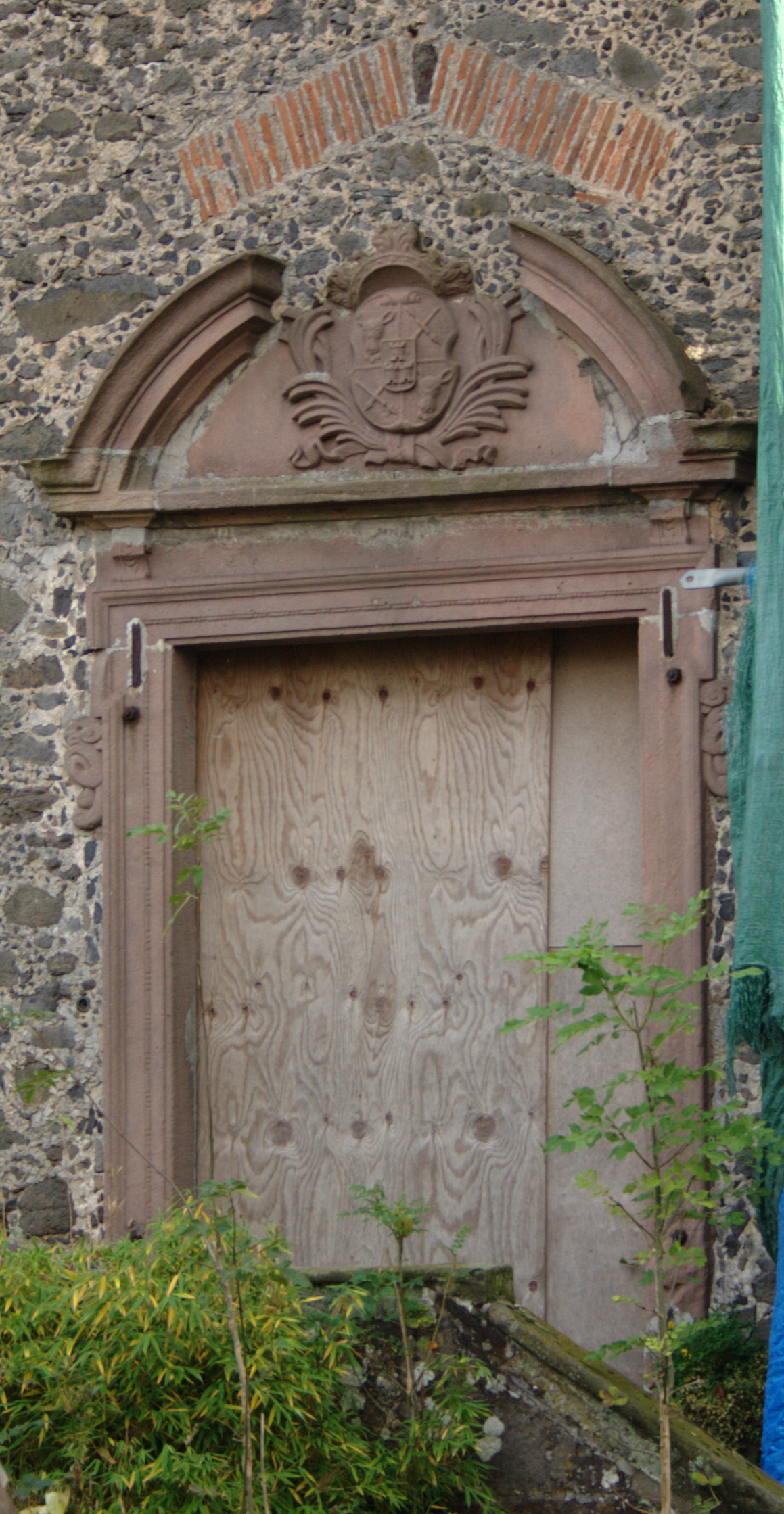 Castle (entrance) in Freiensteinau / Hesse / Germany